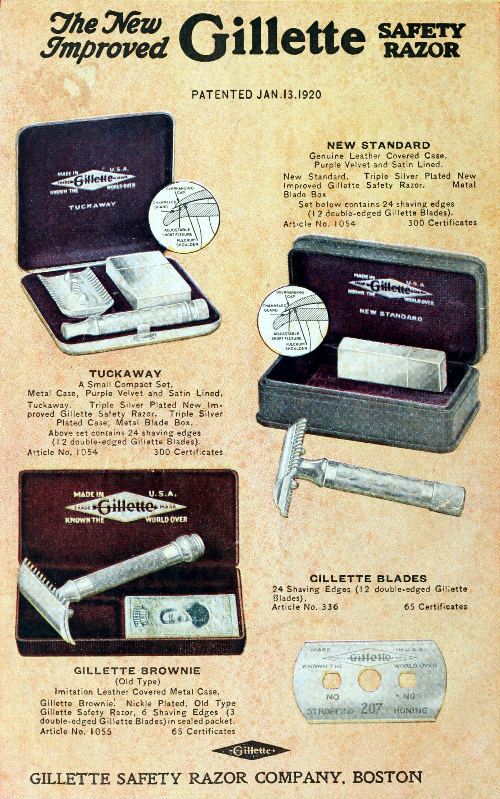 1922 Gillette advert for the Tuckaway, New Standard, and Gillette Brownie razors, and Gillette razor blades.